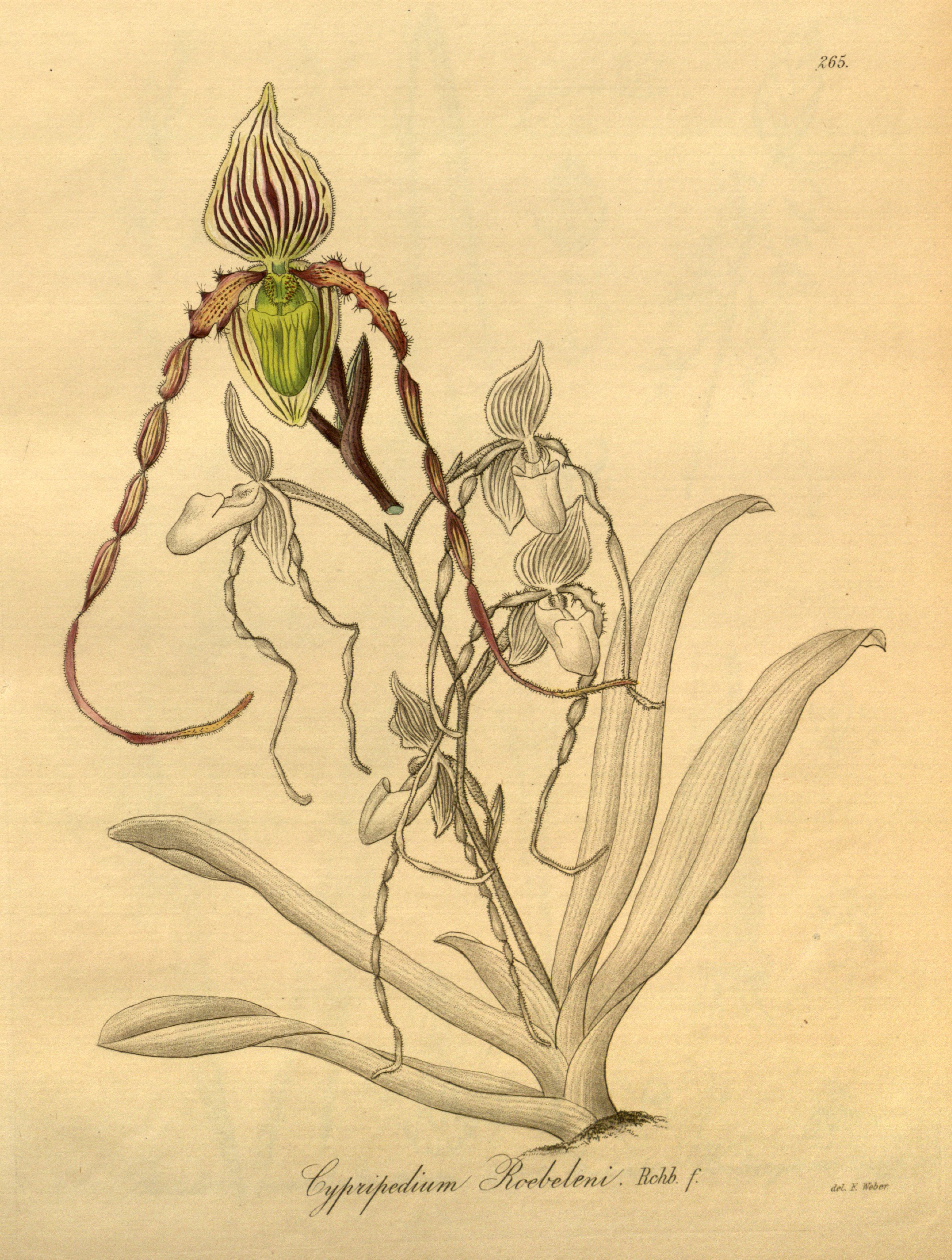 Illustration of Paphiopedilum philippinense var. roebelenii (as syn. Cypripedium roebelenii)